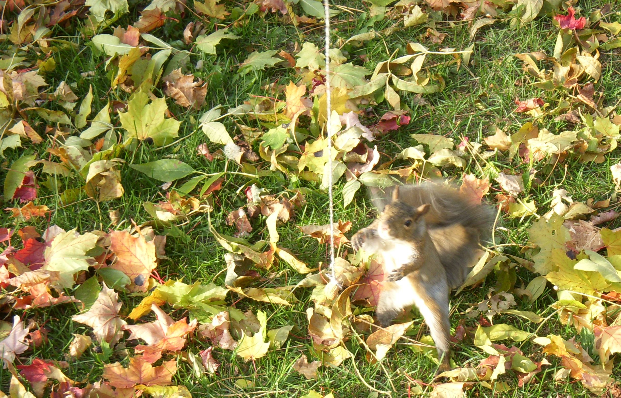 A squirrel the rod during Squirrel_fishing on the University of Waterloo campus, ON, Canada.